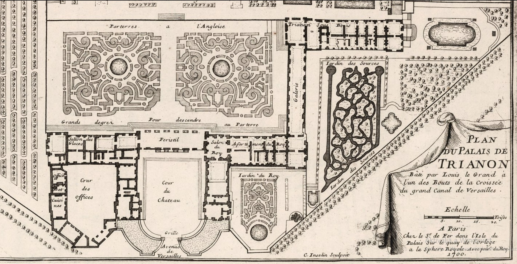 View: Plan du Palais de Trianon David Rumsey Historical Map Collection